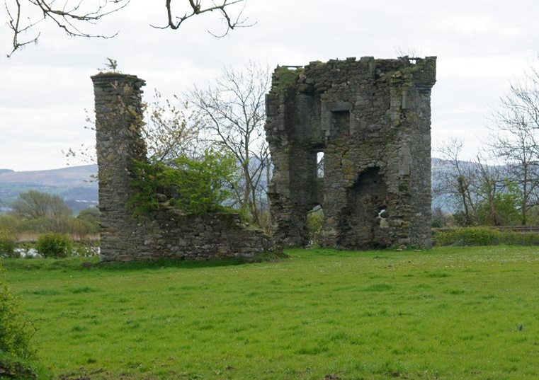 A photograph of Mongavlin Castle near Lifford in County Donegal. The home of Ineen dubh, mother of Red Hugh O'Donnell. Taken in 2013.